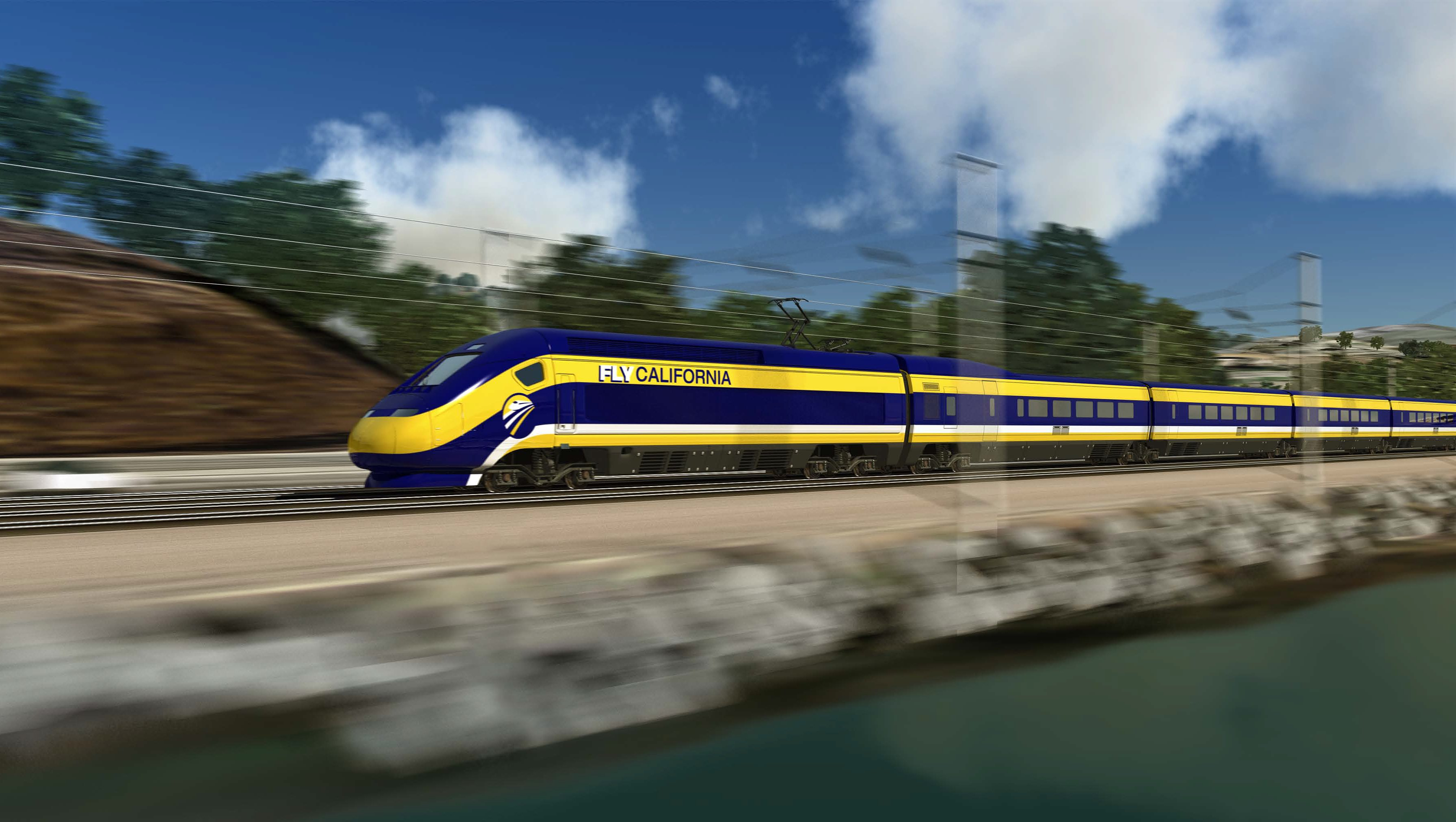 Computer-generated image of the proposed high-speed trains for use in California.